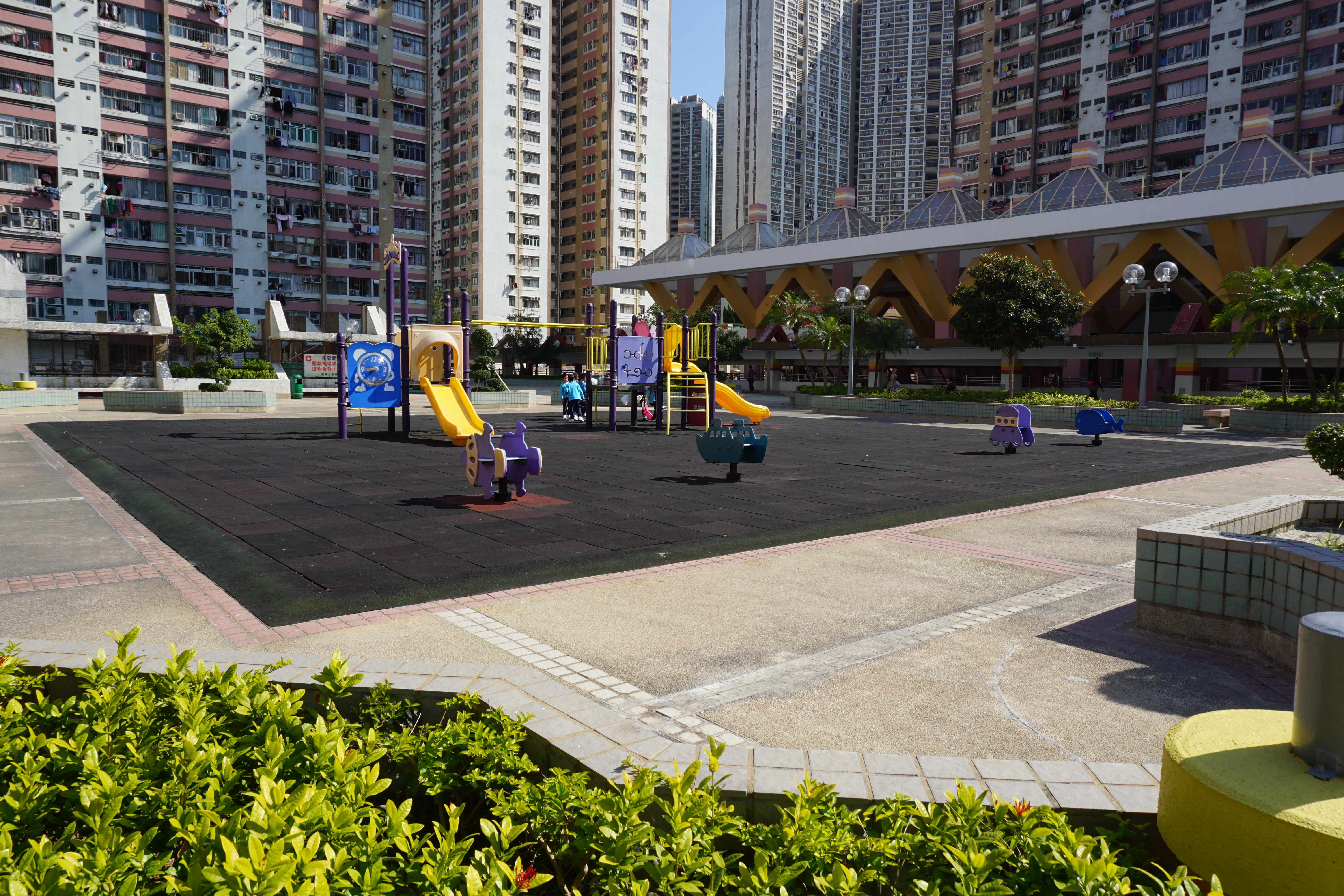 Lok Wah North Estate in Ngau Tau Kok, Hong Kong.